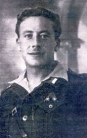 The only survivor of the massacre of Salussola (Italy), where 20 partisans were killed by the fascist militias March 8, 1945